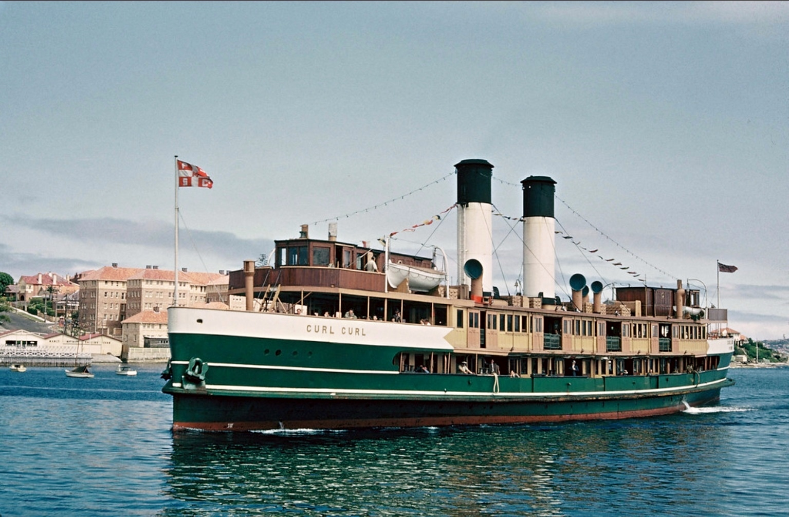 Sydney ferry CURL CURL approaching Manly Wharf 1954 prior to Queen Elizabeth II 1954 first visit to Australia